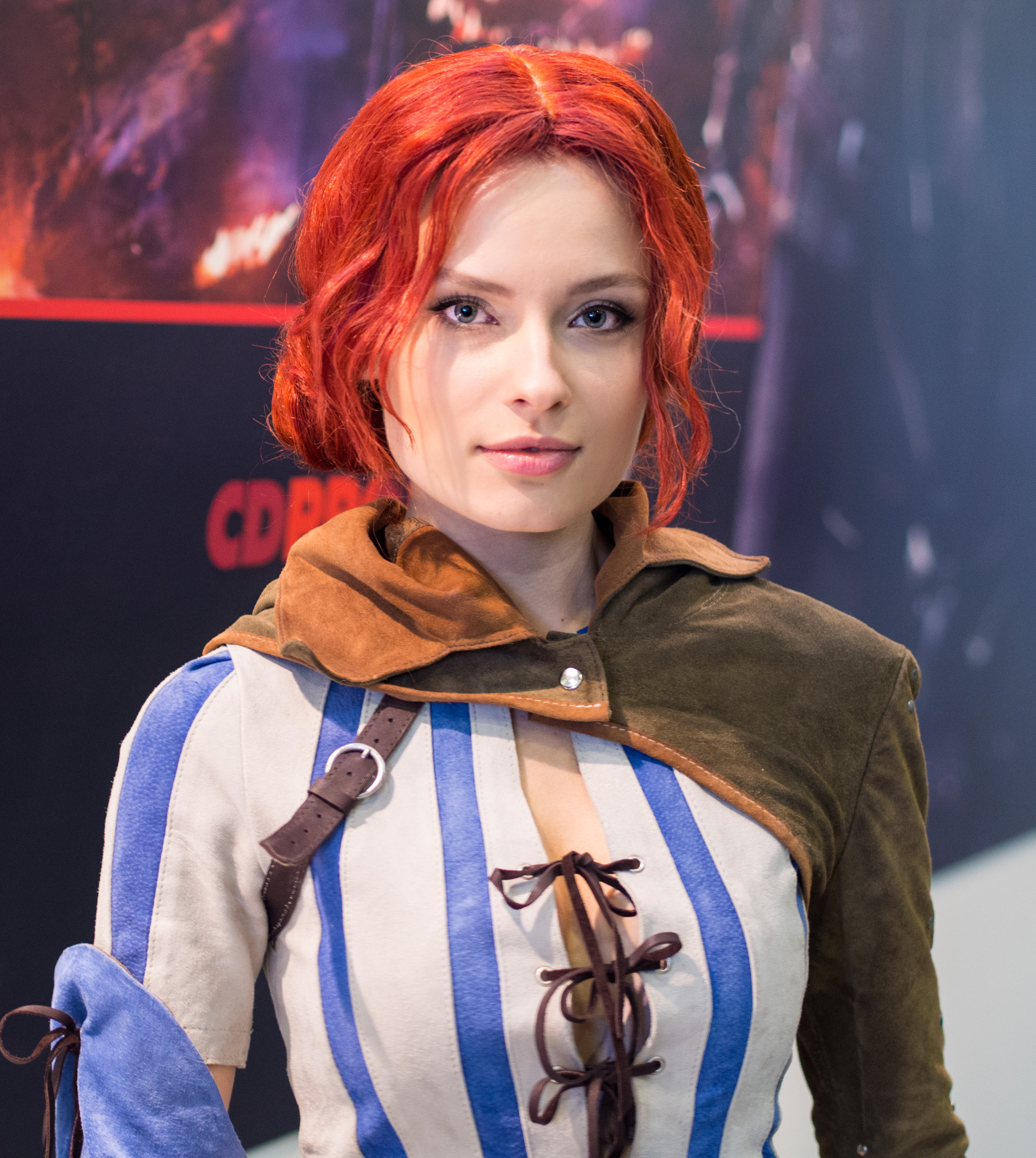 Russian gaming expo